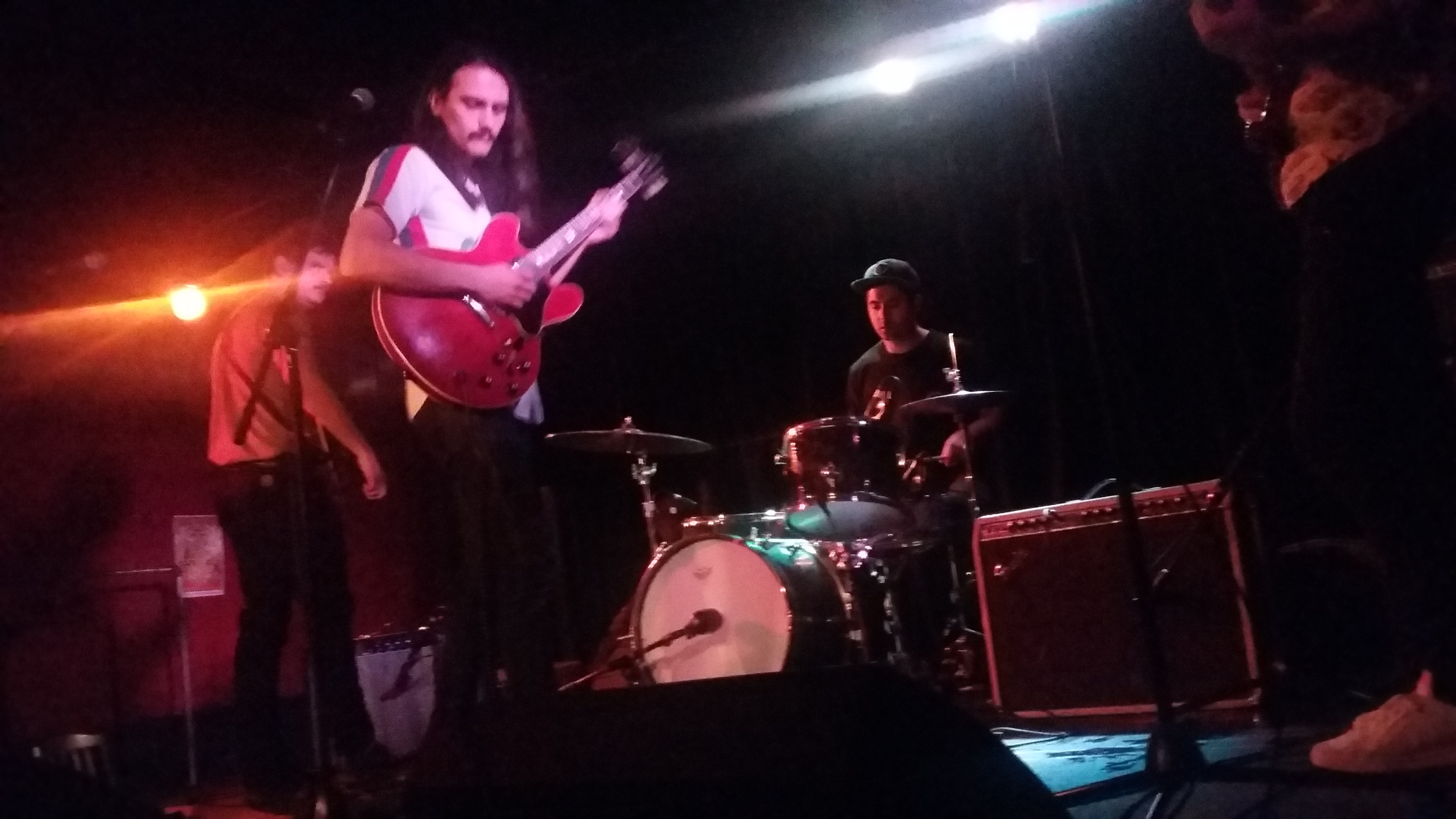 Michael Rault photographed in Montréal, Québec, Canada at Divan Orange.